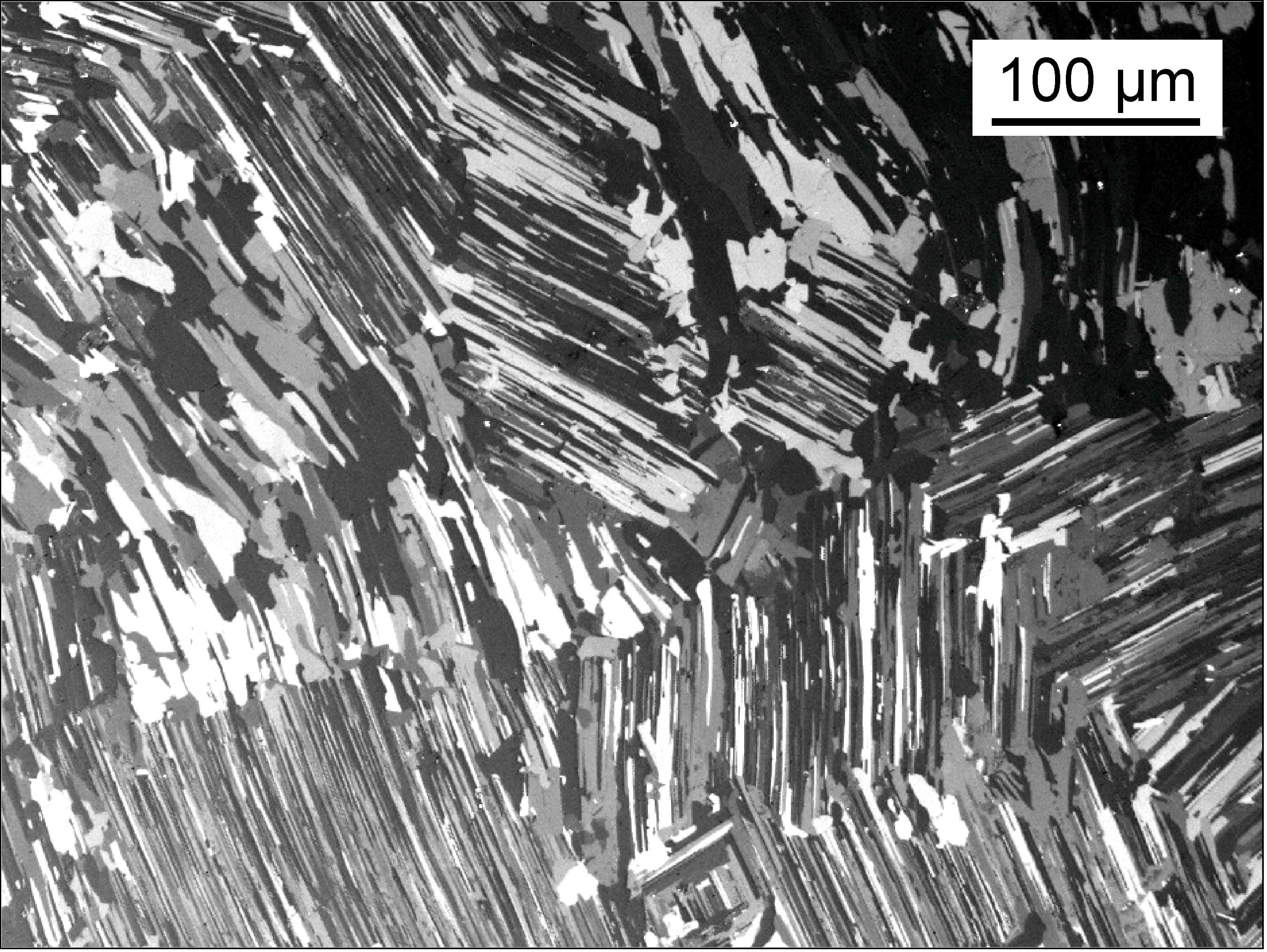 Microstructure of TiAl alloy, optical metallography